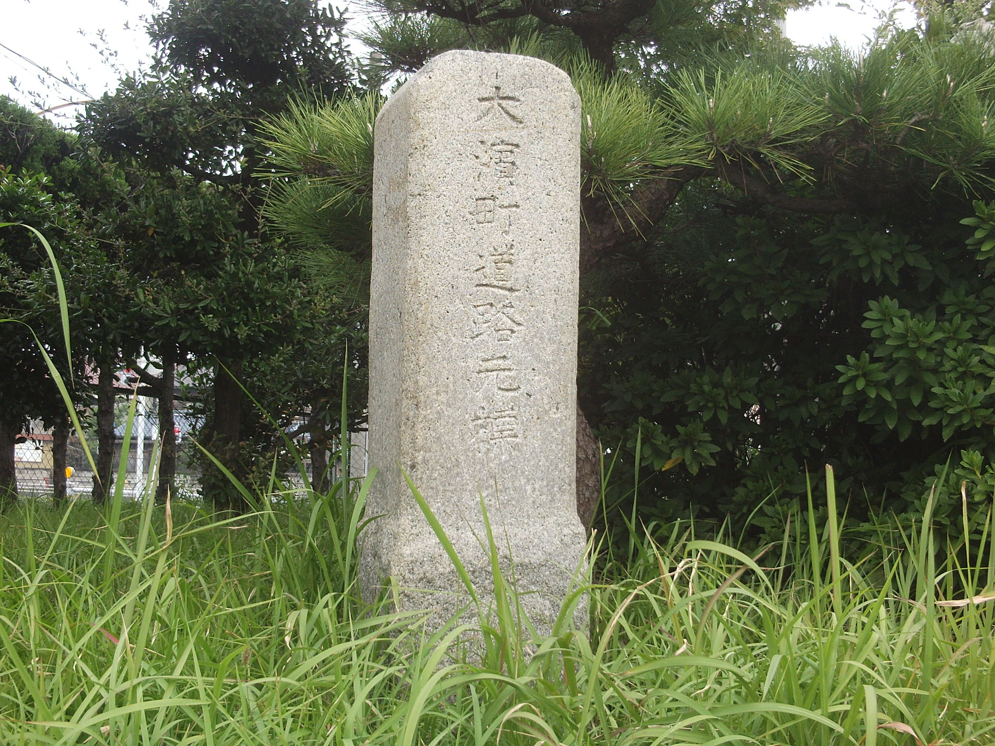 Kilometre zero of Ohama town. (Ohama town, Hekikai-gun, Aichi.)